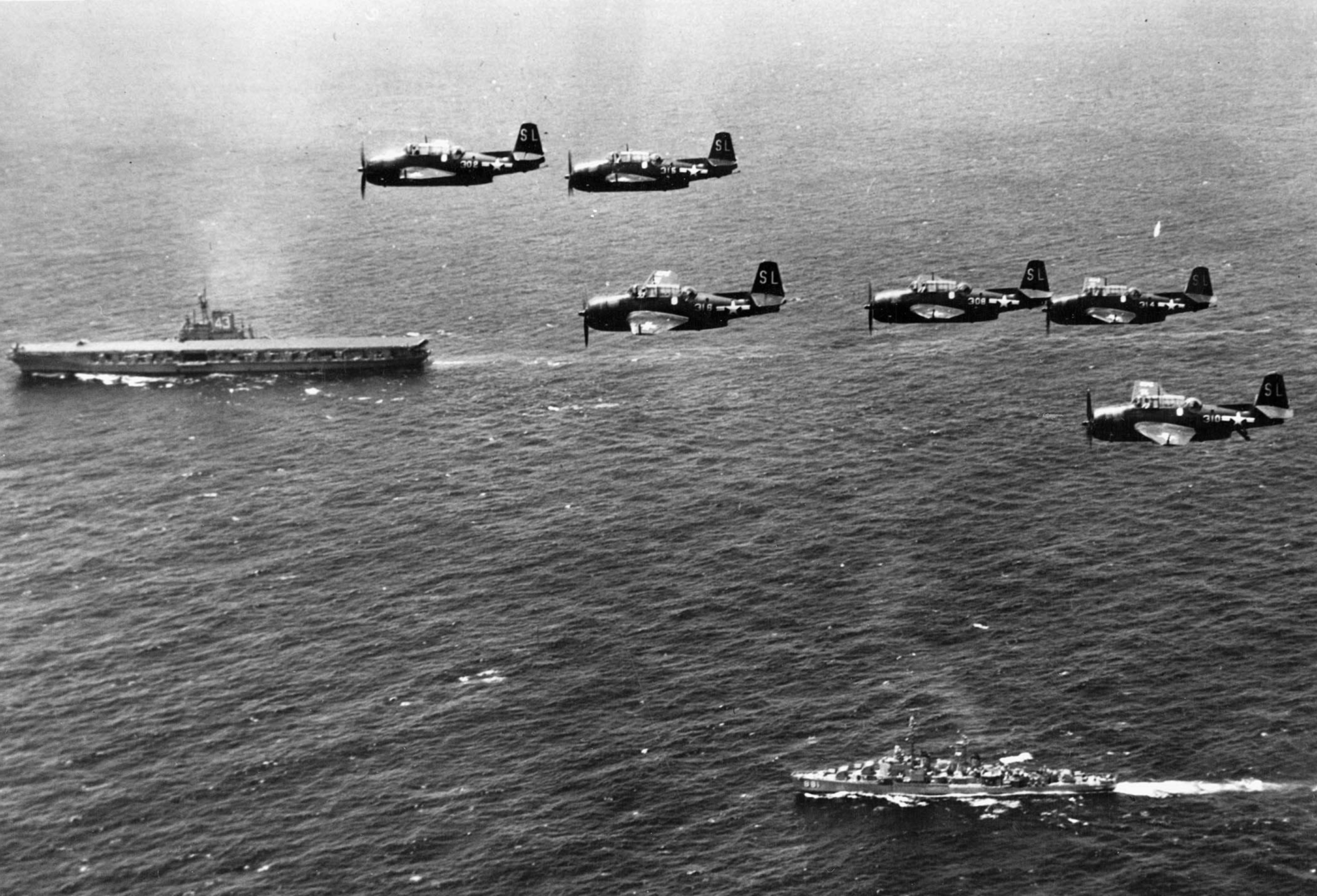 Six U.S. Navy Grumman TBM-3E Avenger anti-submarine aircraft of Composite Squadron VC-22 Checkmates flying over the Mediterranean Sea. This squadron was Attack Squadron VA-2E until 4 August 1948. Below are the aircraft carrier USS Coral Sea (CVB-43) and the Gearing-class destroyer USS Bordelon (DD-881).